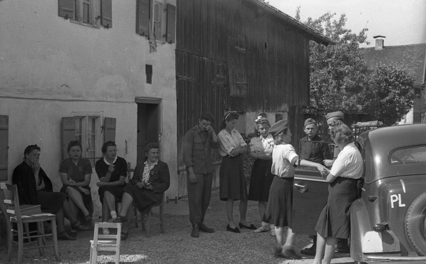 Group of women. One woman wears an Austrian resistance Edelweiss - Patch. Other girls standing close to the car, talking and flirting with soldier. Two further girls dressed in "french"-style. Car is signed PL which is name of Poland. Car is owned by Polish Army as a part of Allies round year 1945. Place is probably Murnau in Germany. (Source: spiegel.de)